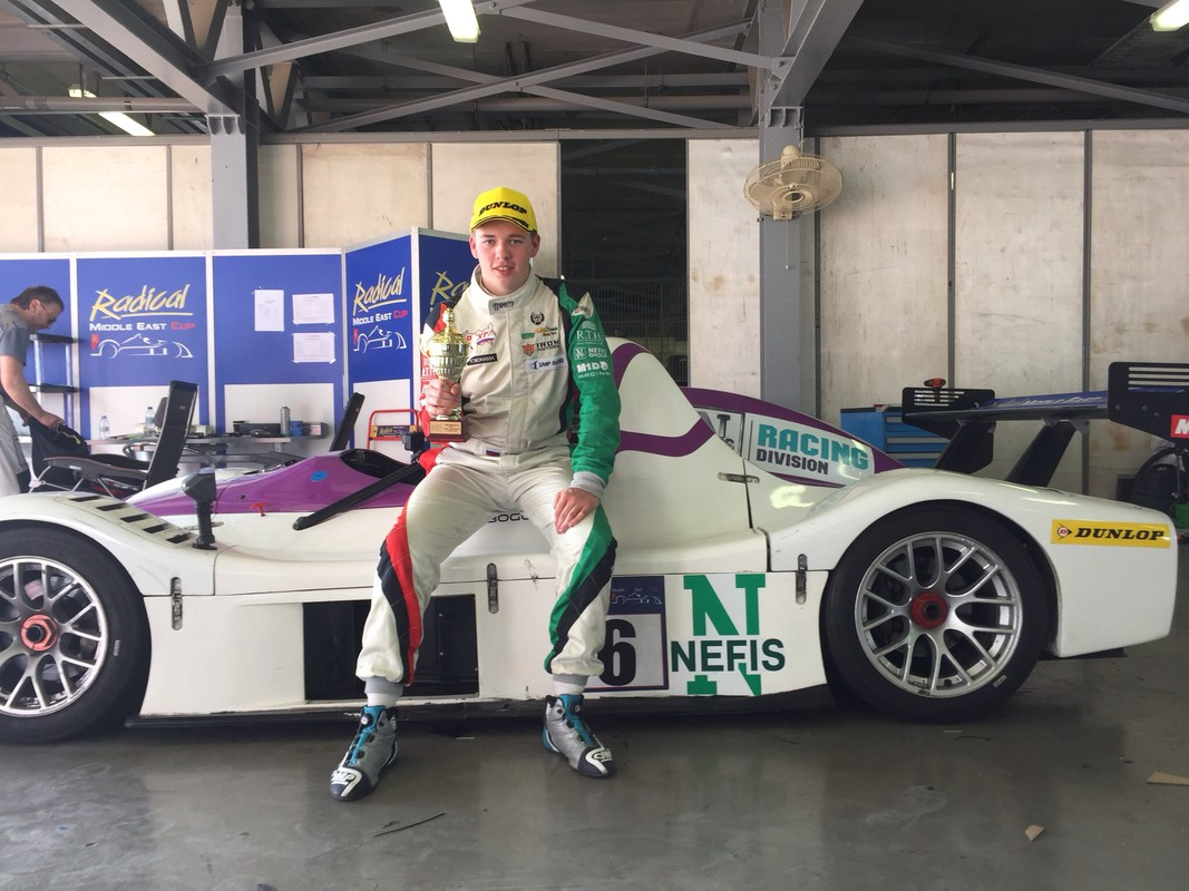 Boguslavskiy RMEC 2017